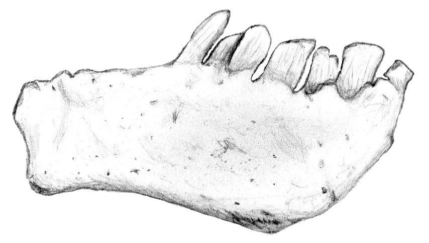 Drawing of the dentary bone Chilesaurus